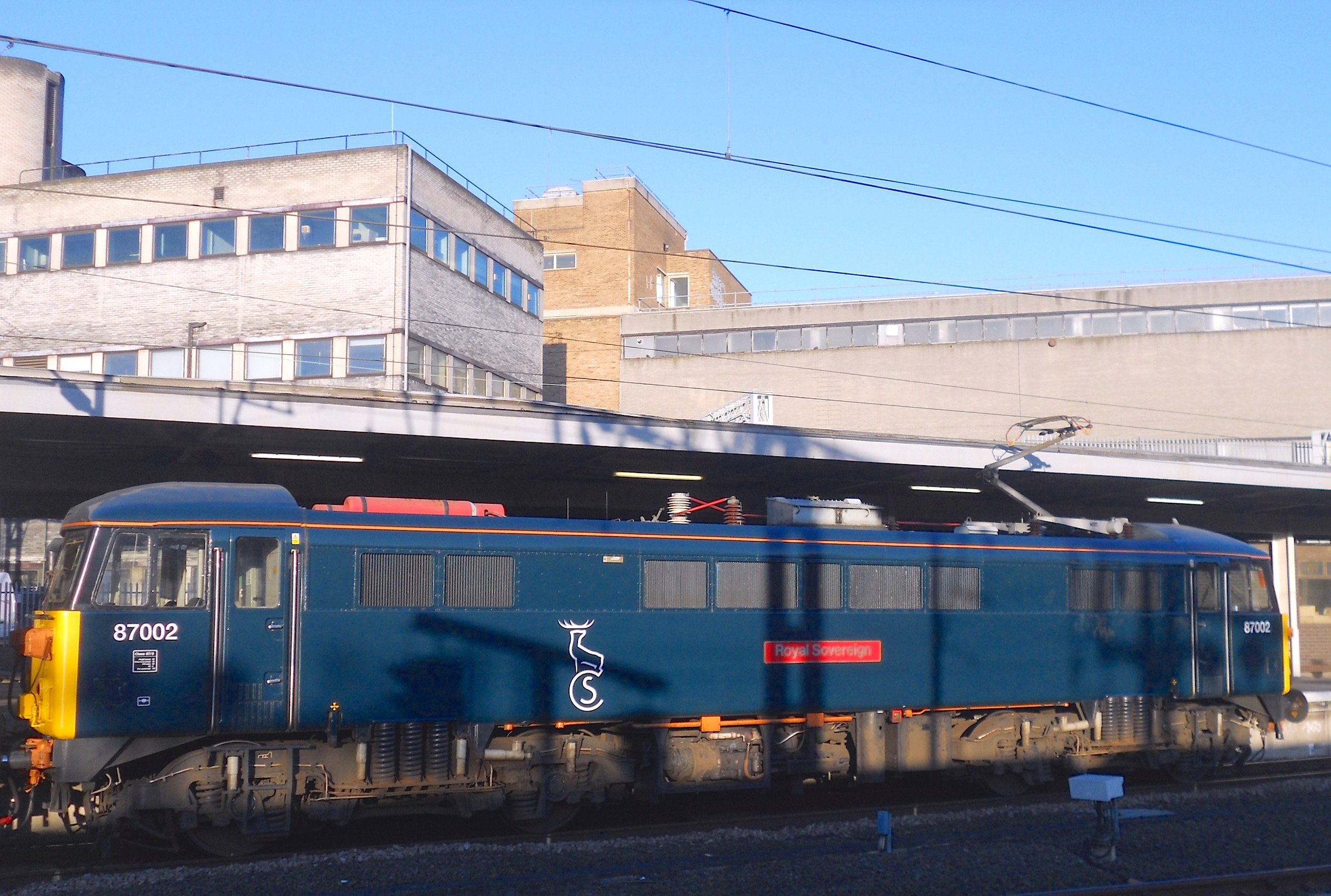 Caledonian Sleeper Class 87 No. 87002 'Royal Sovereign' at London Euston